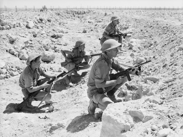 The photo's online record states that it's copyright status is 'clear'. The photo was taken in 1941. AWM photo caption: TOBRUK, LIBYA. 1941-09-08. A SMALL PATROL FROM THE 2/13TH INFANTRY BATTALION WAITING IN A TANK DITCH FOR A FAVOURABLE OPPORTUNITY TO GO FURTHER AHEAD INTO "NO- MAN'S- LAND".